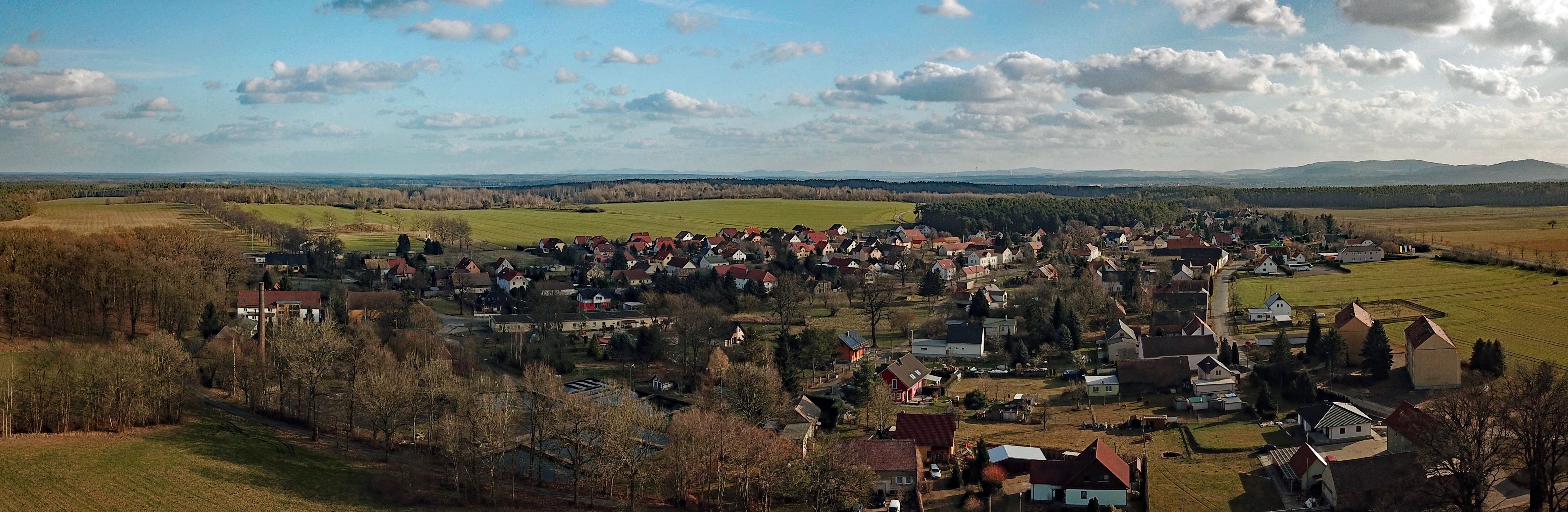 Biehla (Schönteichen, Saxony, Germany) Hornjoserbsce: Powětrowy wobraz Běłeje, gmejna Schönteichen.